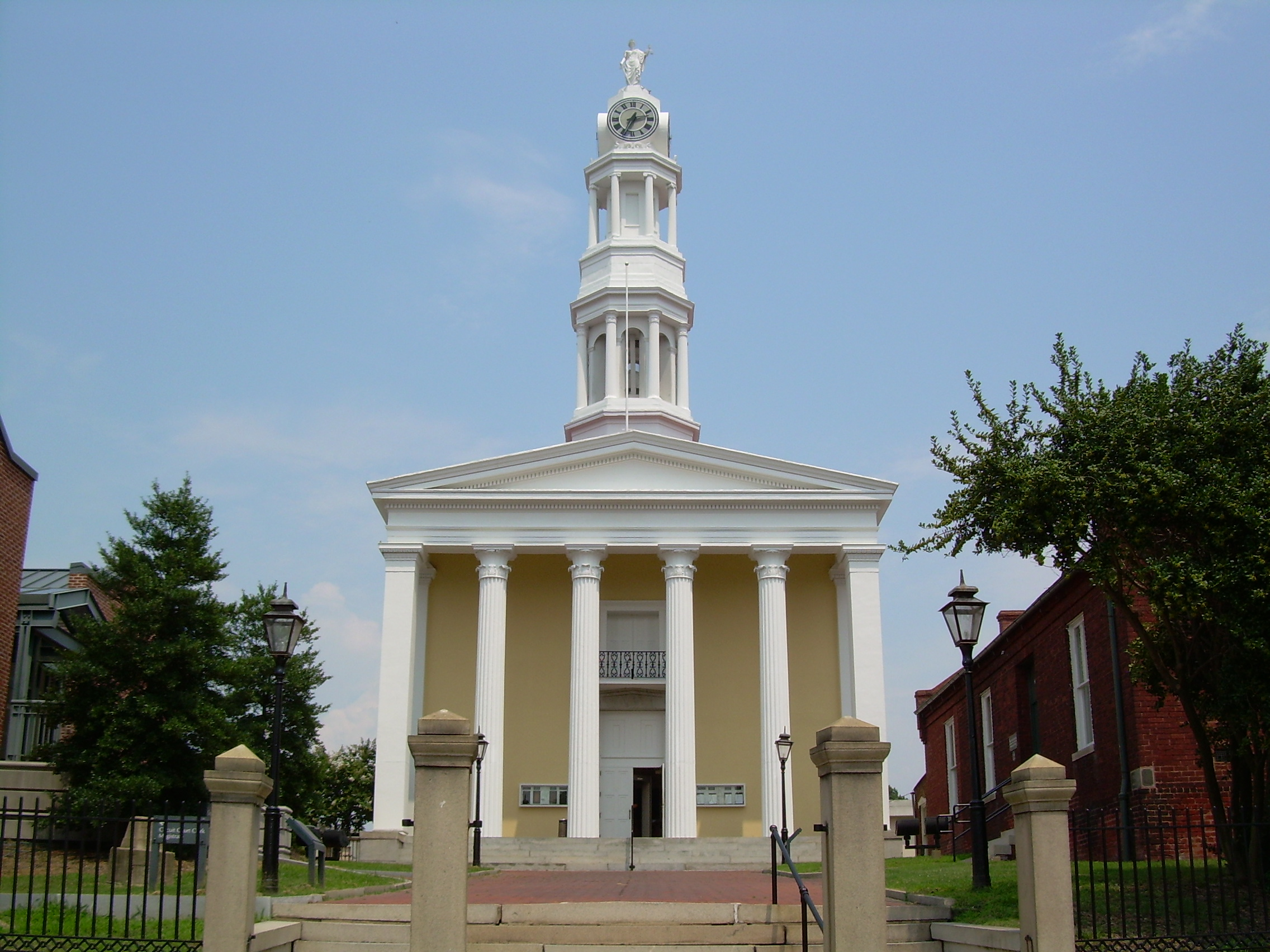 The Petersburg Courthouse, view from Sycamore Street in Petersburg Virginia. Author: Judd Carter